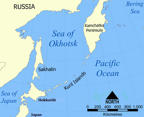 This is a map showing the location of the Sea of Okhotsk. The sea is bordered by Russia and Japan. Modified from a map created by User:NormanEinstein, October 24, 2005.